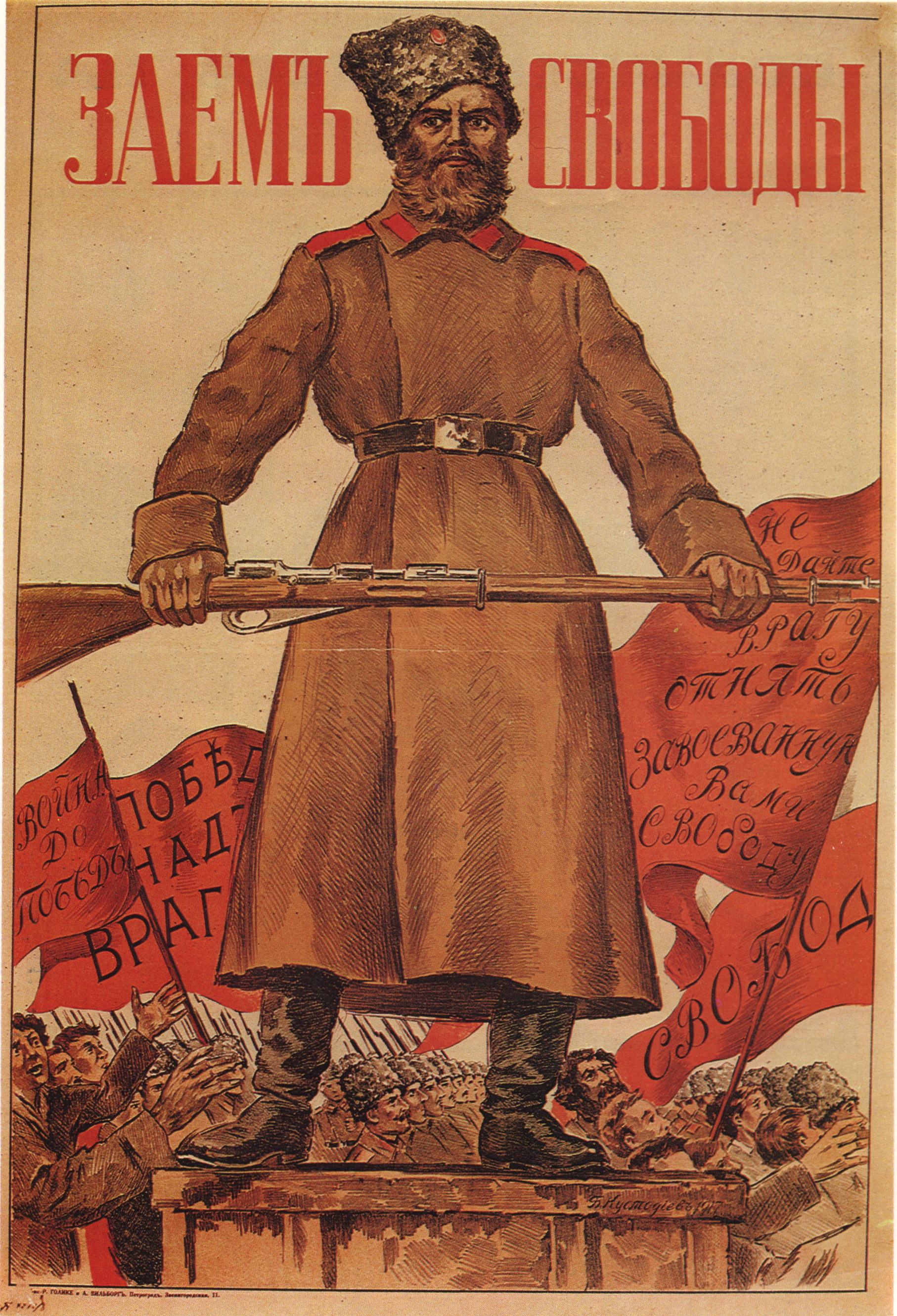 poster